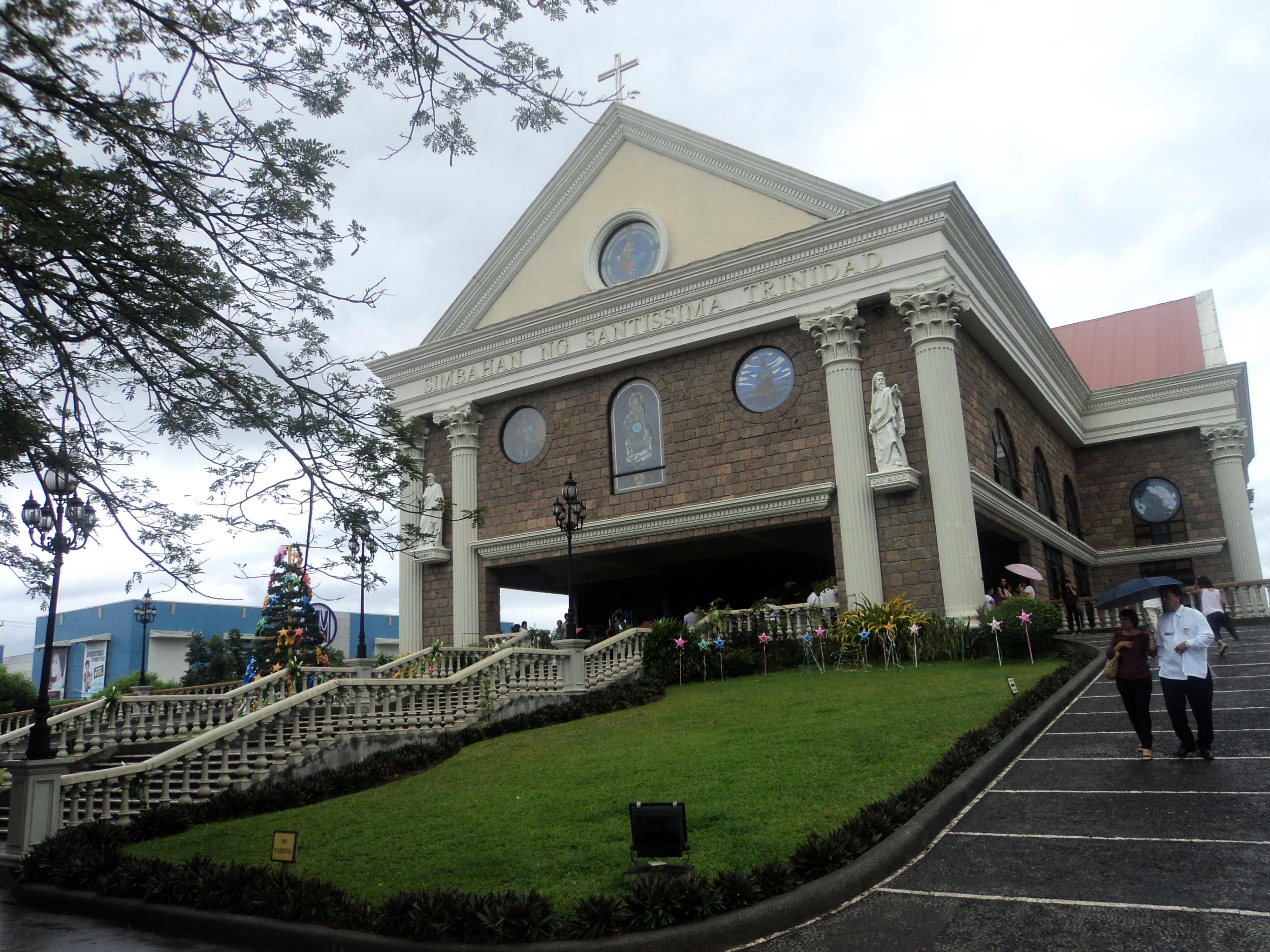 The Most Holy Trinity Parish in Batangas City